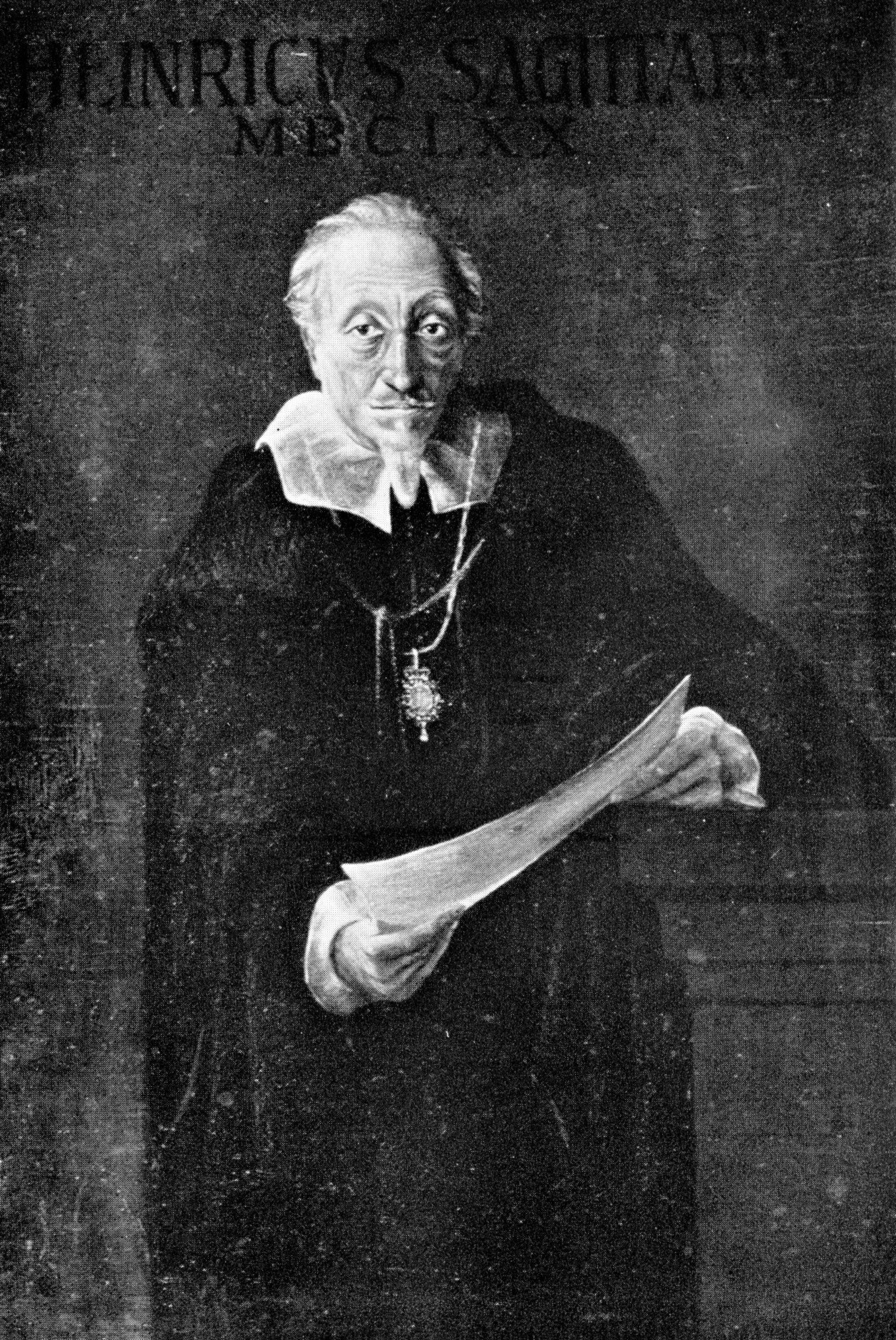 Forged portrait of Heinrich Schütz (1585-1672)